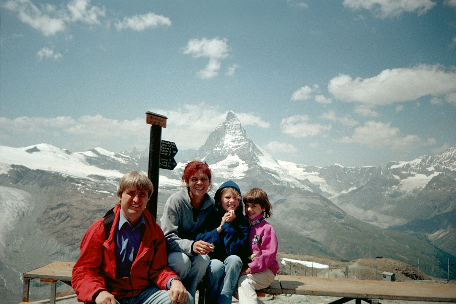 Esperantist family Weidmann in front of the Matterhorn, view from Gornergrat